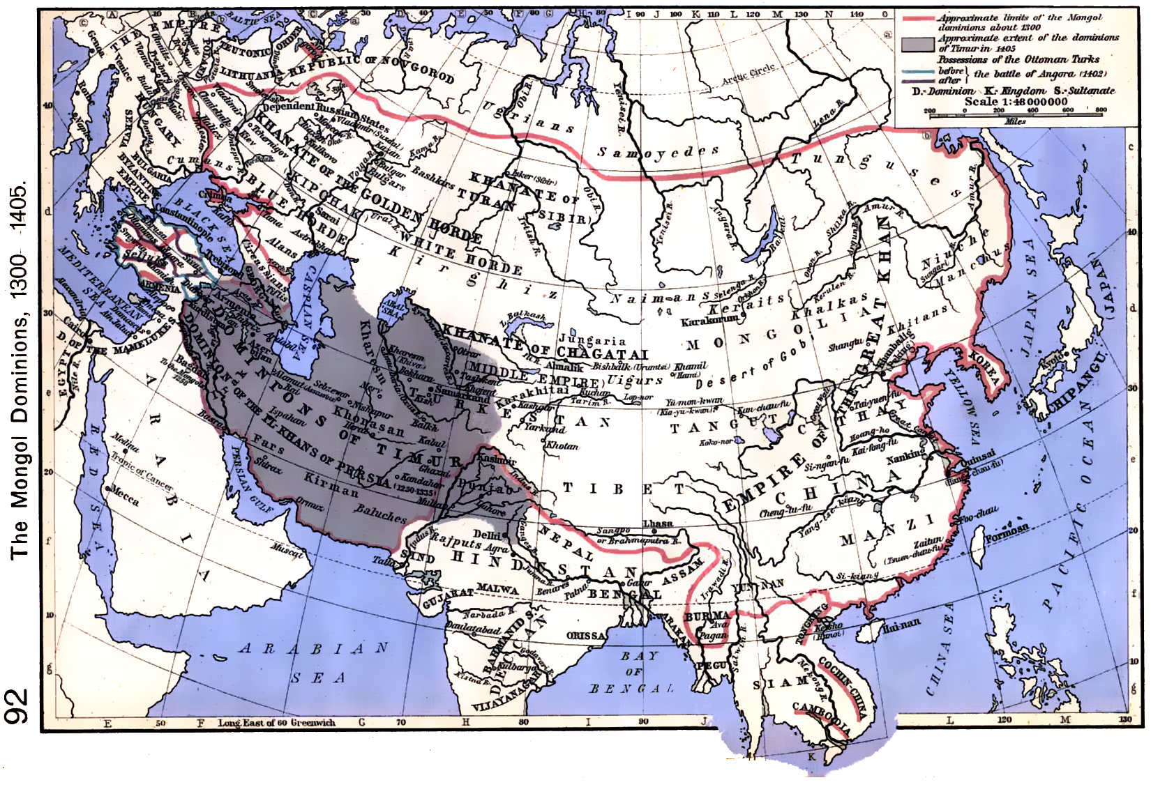 Map of mongol dominions (clean version).